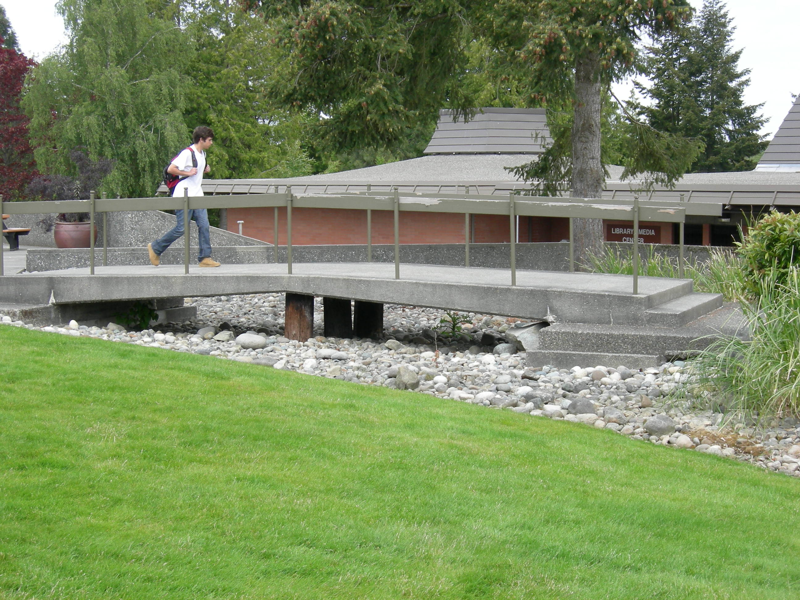 Shoreline Community College, Shoreline, Washington. Some elements of the architecture and landscaping are reminiscent of traditional Japanese architecture. Note the high roof element (which actually covers HVAC equipment) and the rocks representing a stream as in a traditional Japanese garden.